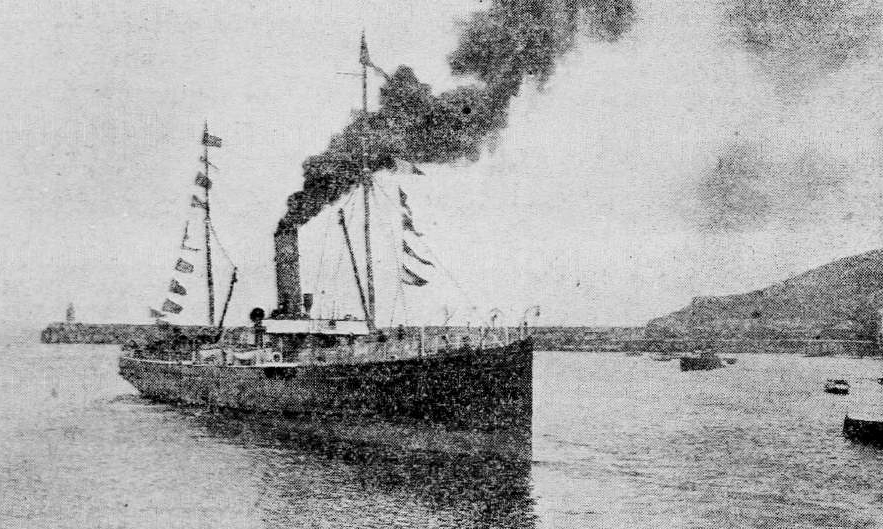 RMS Fenella departs Douglas, Isle of Man, for the final time; Monday September 9, 1929.